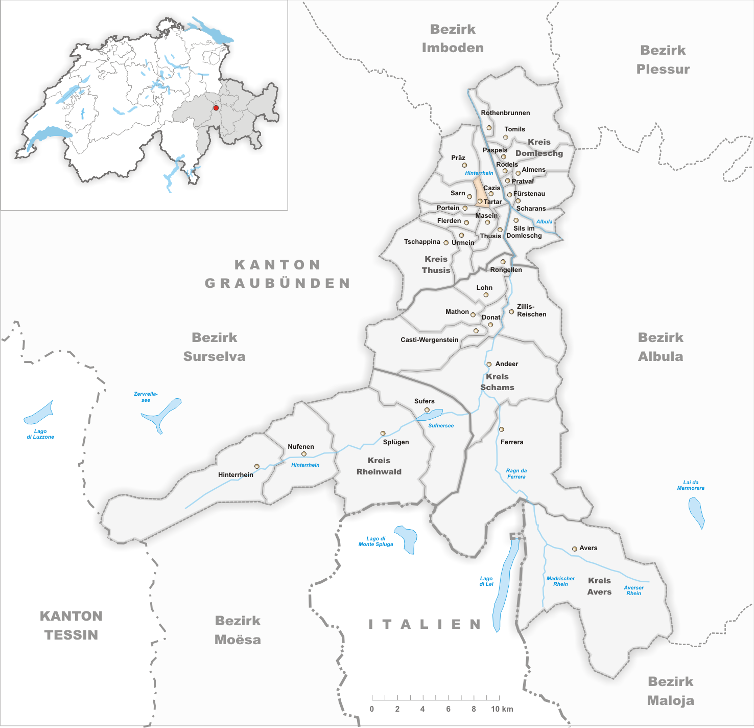 Municipality Tartar